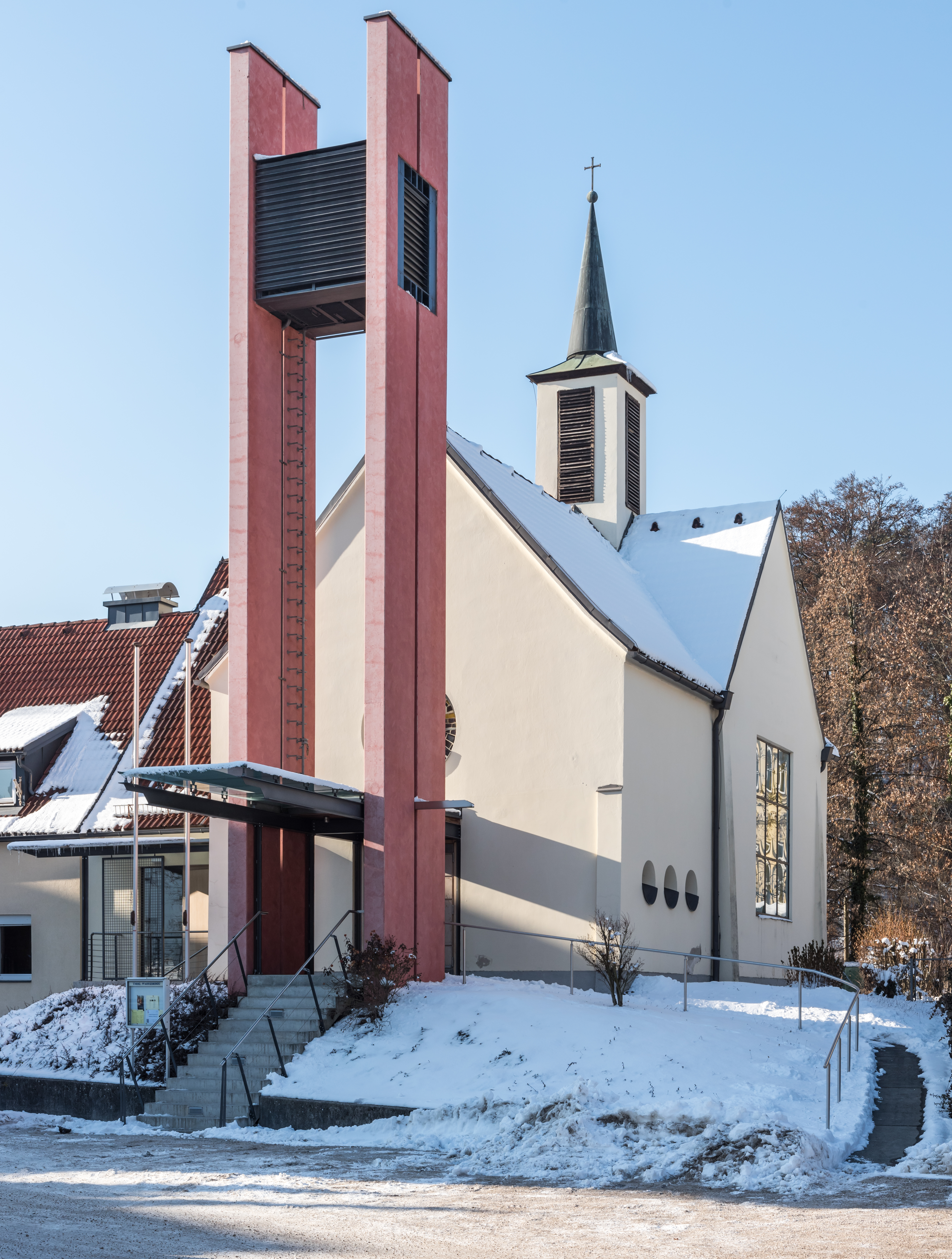 Lutheran Redeemer church on Kirchplatz #8, municipality Pörtschach am Wörther See, district Klagenfurt Land, Carinthia, Austria, EU